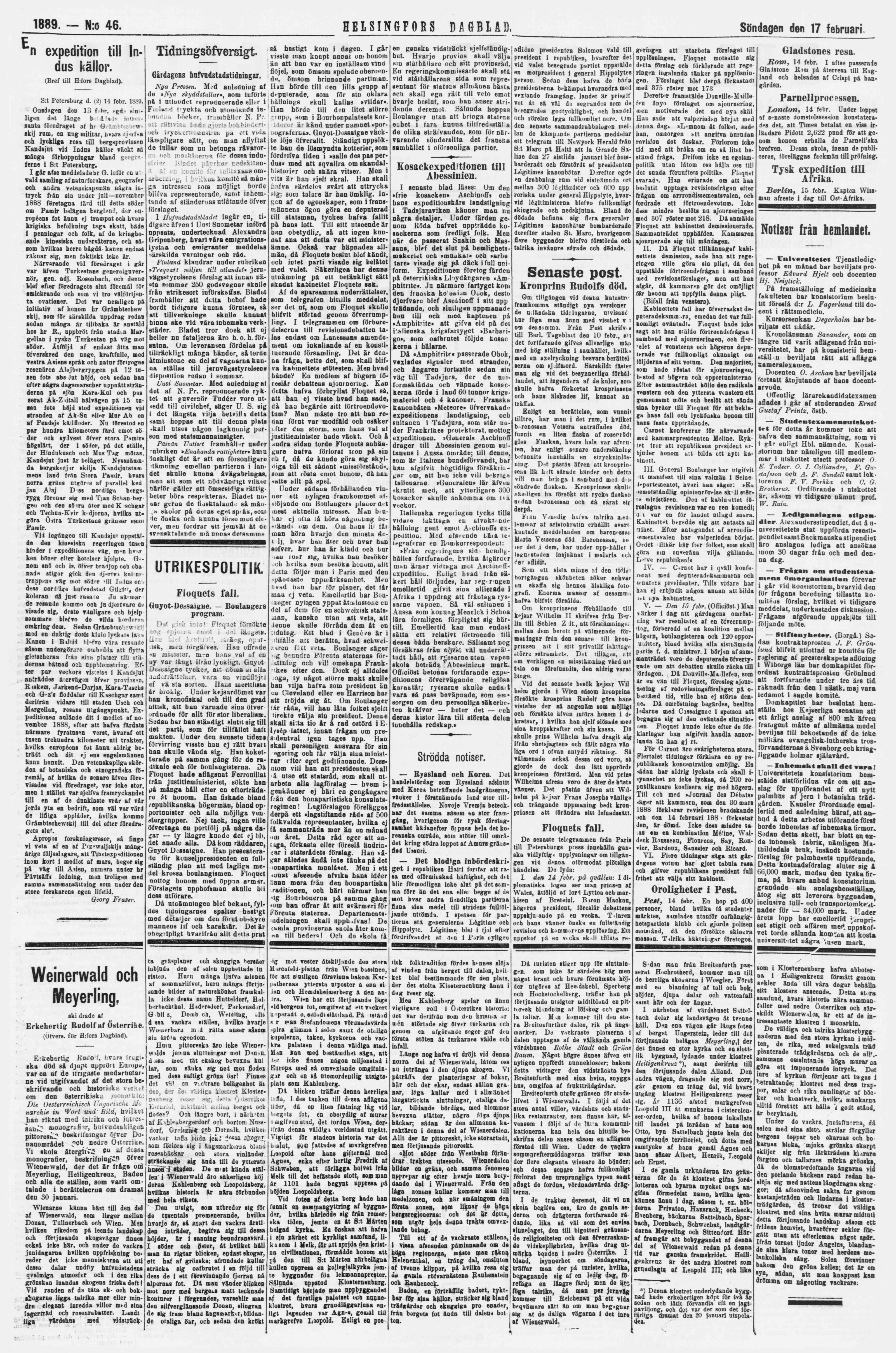 Page of the Helsingfors Dagblad newspaper showing a feuilleton at the bottom of the page.